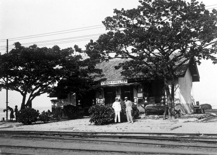 Tramstation Kamalpier of the Madura Tram Company in Kamal, Madura